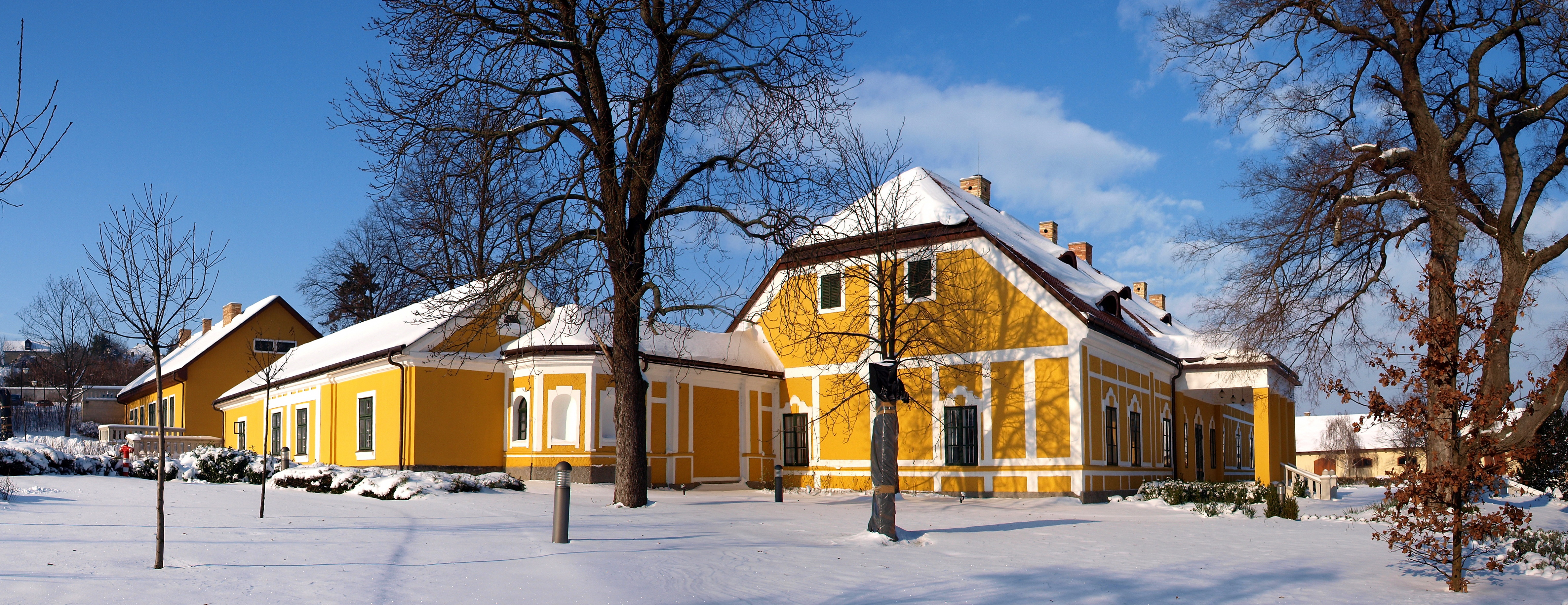 Jankovich Mansion, Rácalmás, Fejér County, Hungary.